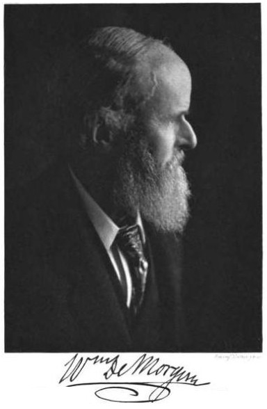 Picture of William De Morgan, the artist